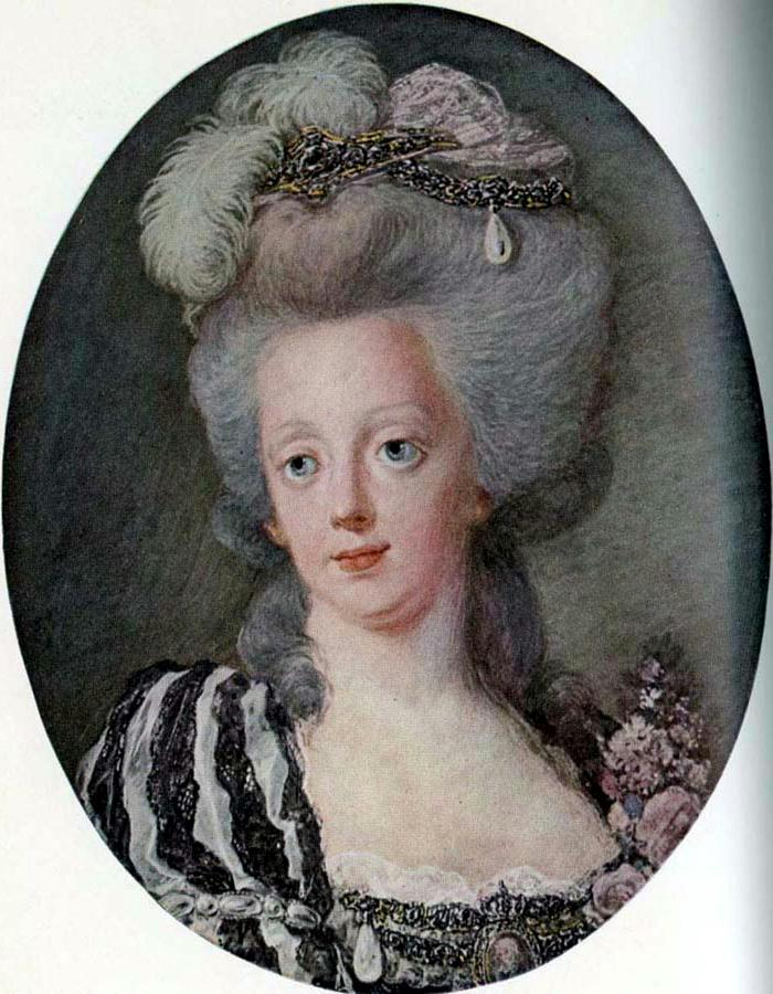 Portrait of Queen Sophia Magdalene of Sweden (1746-1813)